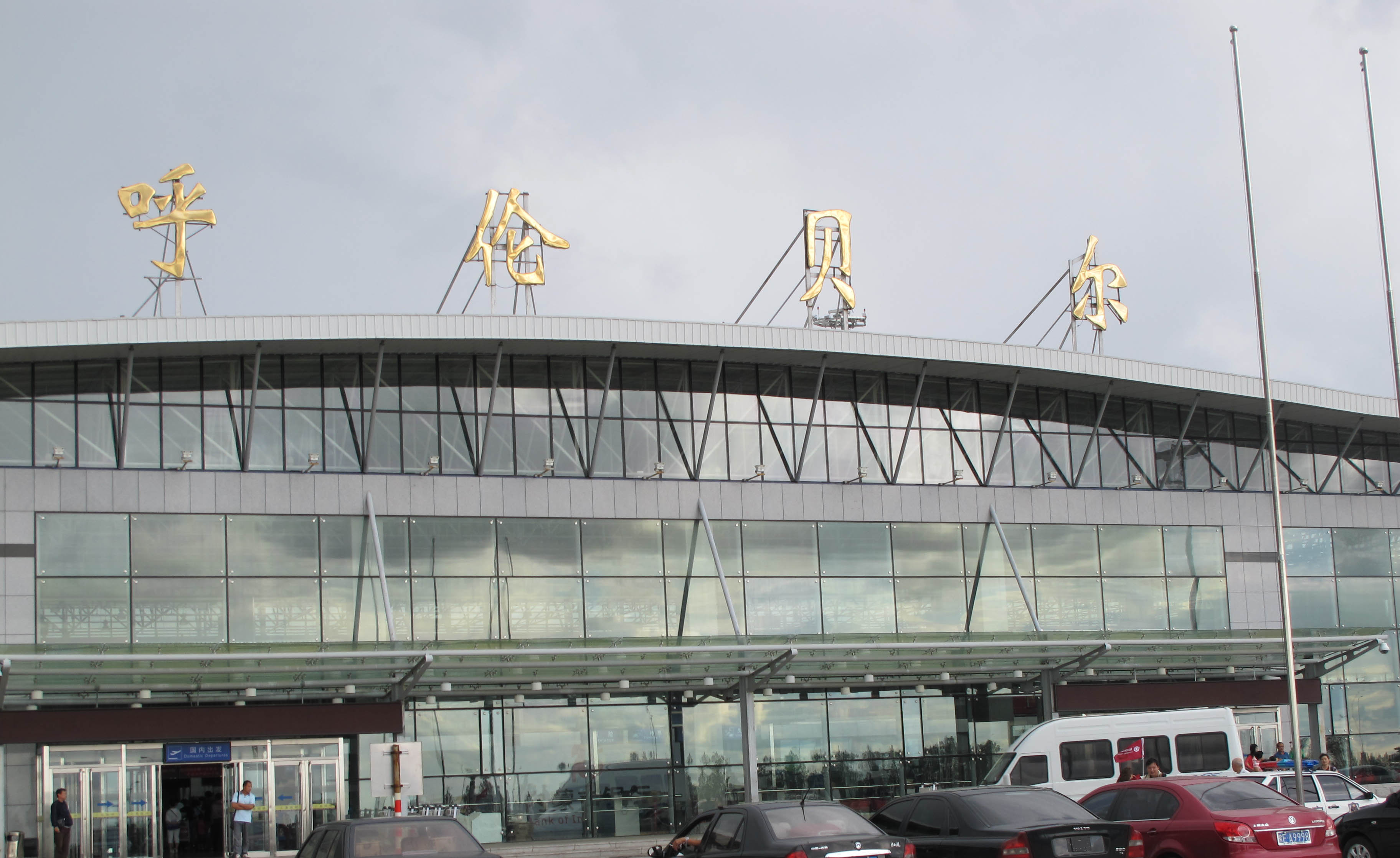 Hulunbuir Air Port,Inner Mongolia,China